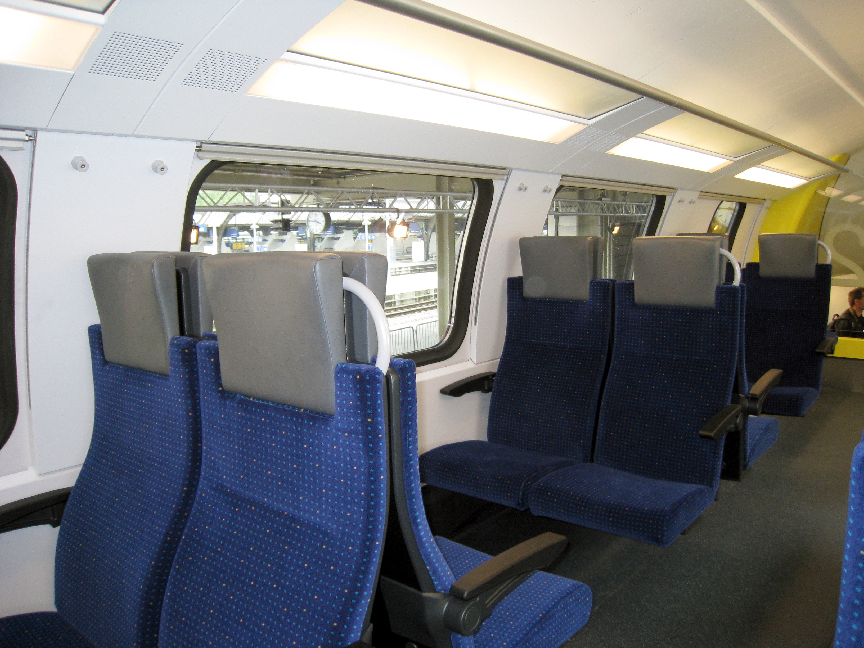 Second-class seats in the upper deck of the SBB RABe 511 EMU (Stadler KISS).